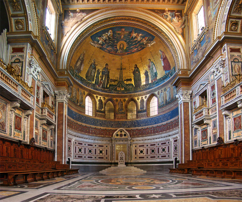 Basilica of St. John Lateran, Vatican, located in Rome, Lazio, Italy. Choir and apse. The mosaics in the dome are a 19th Century rebuilding of Jacopo Torriti's works dating back to the 13th Century.